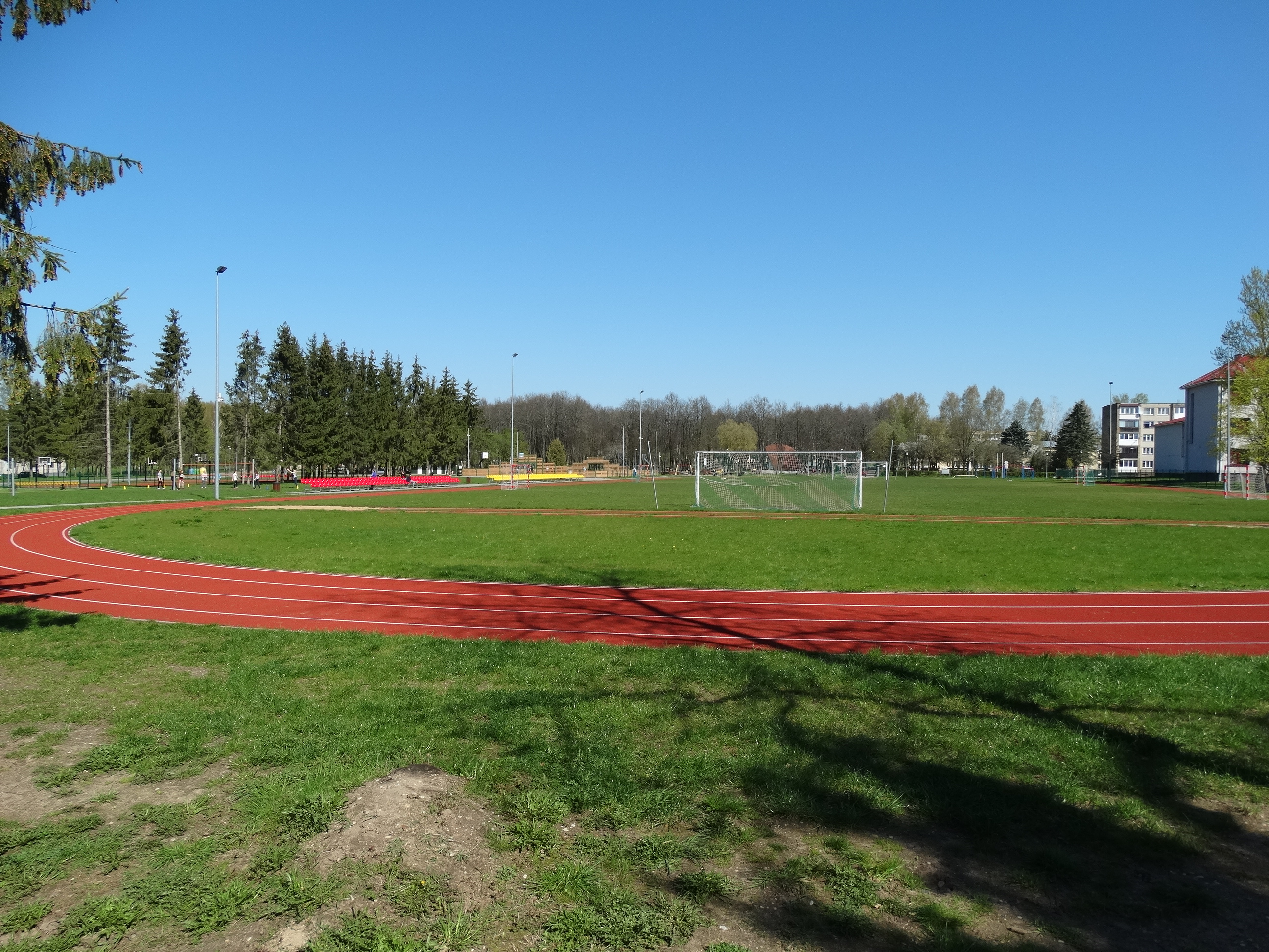 Stadium by Jan Śniadecki Gymnasium, Šalčininkai, Lithuania